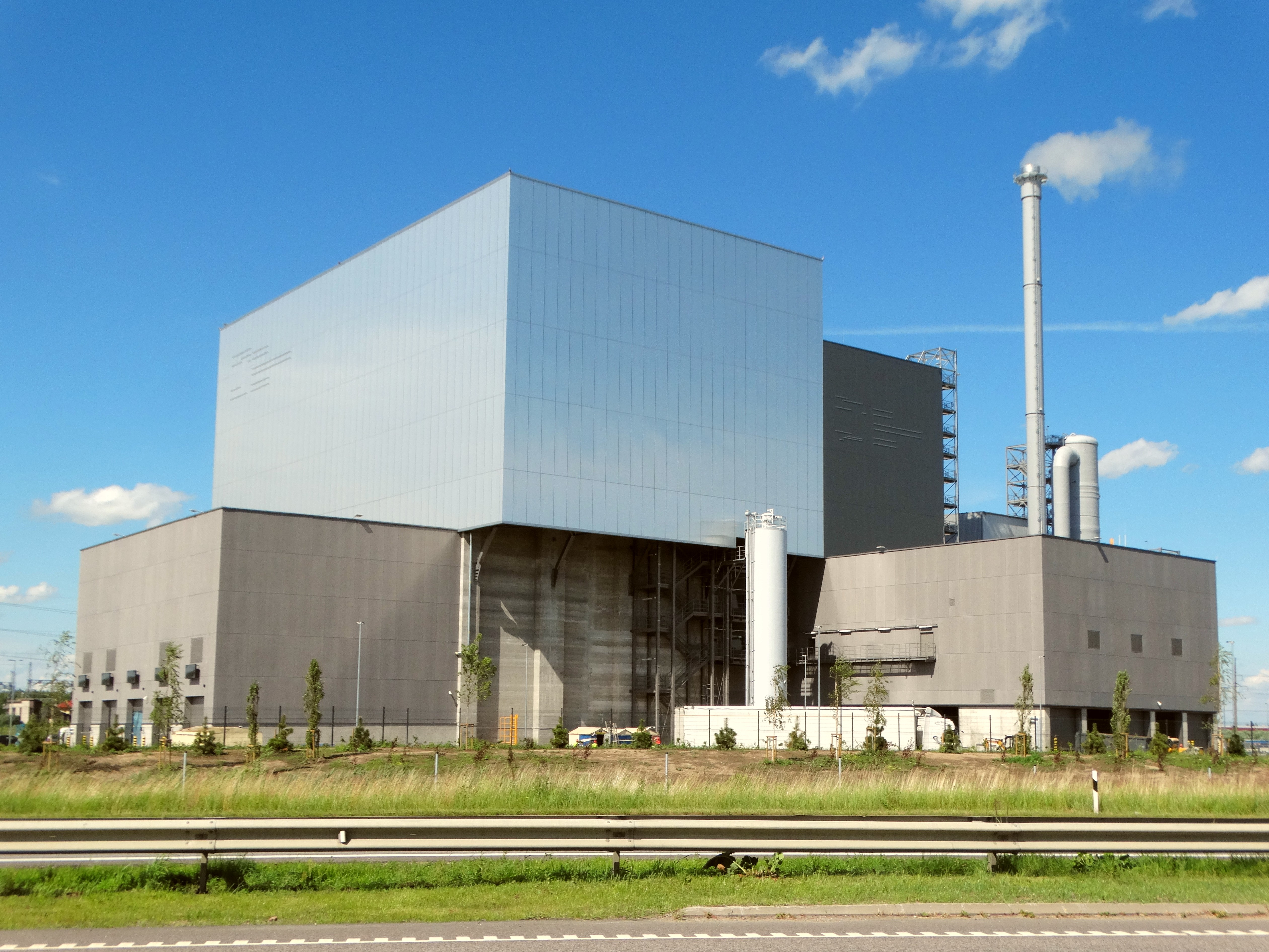 Kaunas cogeneration power plant,Lithuania